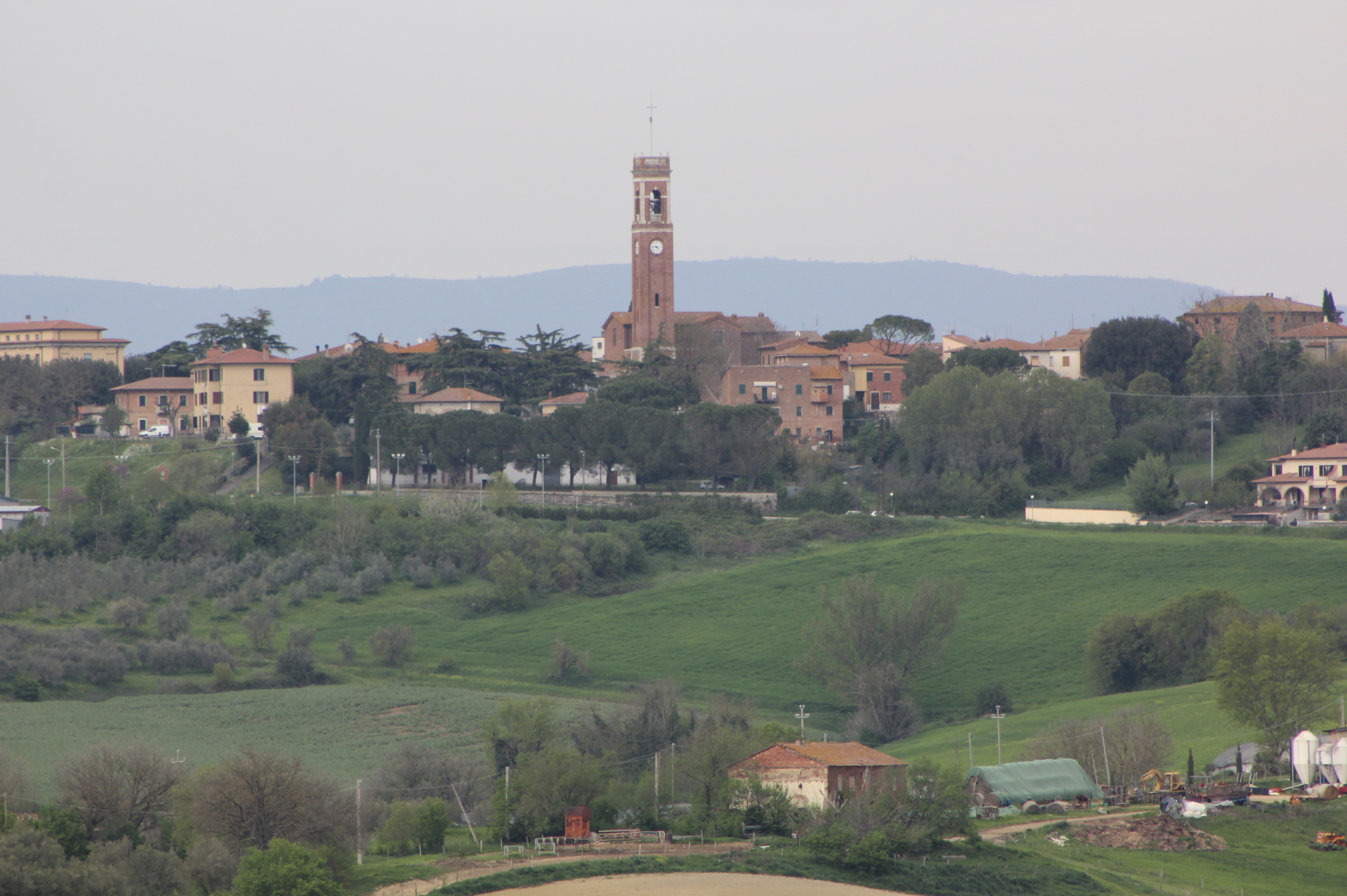 Pozzuolo, hamlet of Castiglione del Lago, Province of Perugia, Tuscany, Italy